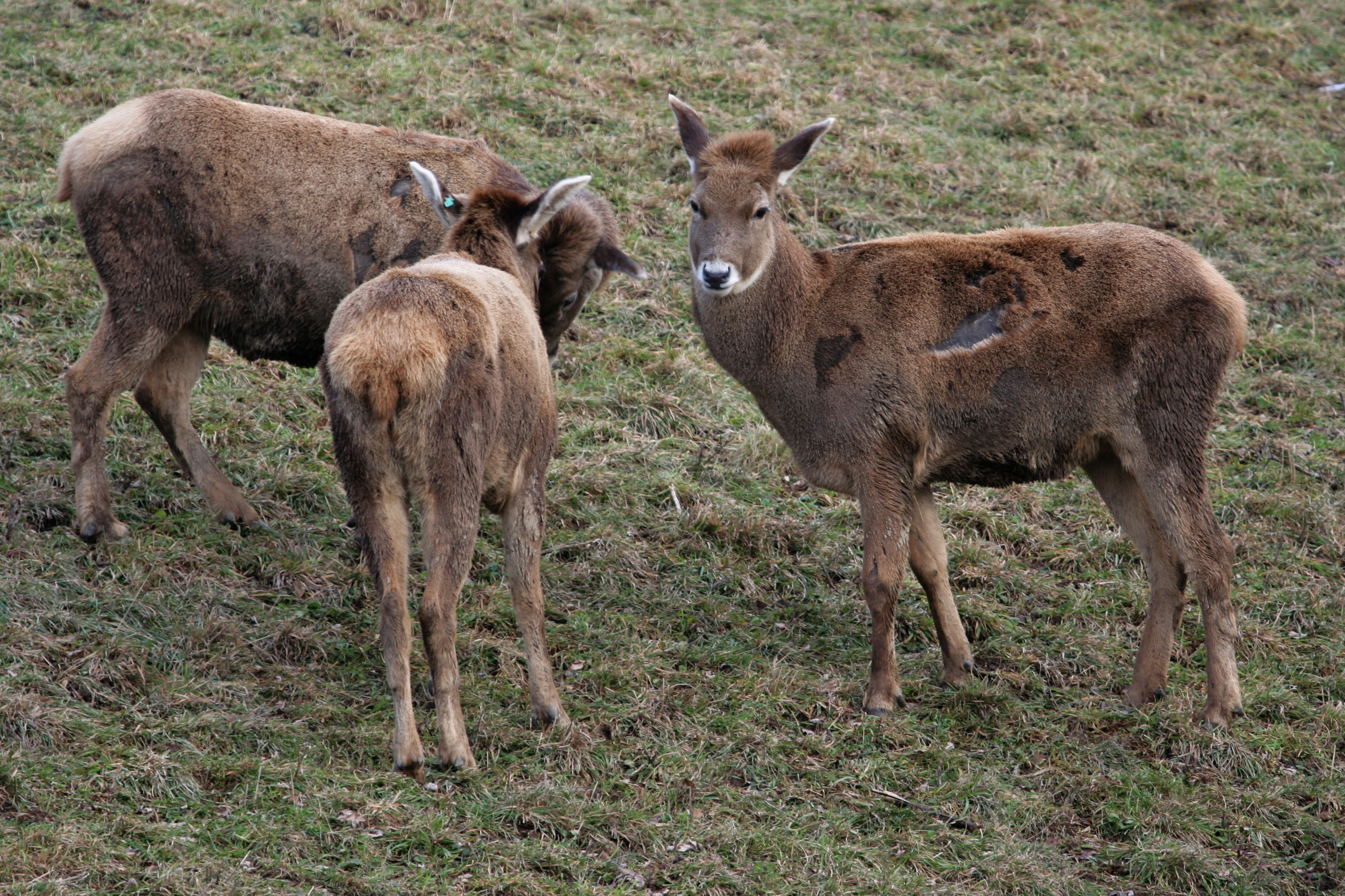 Thorold's deer (Cervus albirostris) at the Rosamond Gifford Zoo, Syracuse, New York.